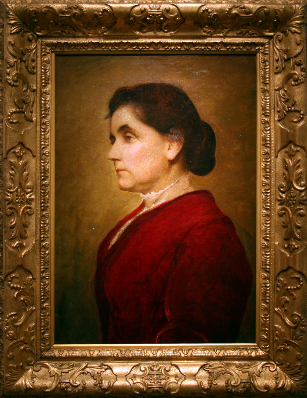 Jane Addams was among the first of the college-educated women of the late nineteenth century to escape the social and cultural constraints limiting professional women to teaching and missionary work. As low wages, long hours, and wretched living conditions became the norm for America's urban industrial workers, many, including Addams, were disturbed by the specter of a permanently oppressed lower class ruled by a privileged elite. In 1889, Addams, having admired settlement houses (neighborhood social welfare centers) in London, established Hull-House in a Chicago slum, the second settlement house in the United States. Within a decade, it offered practical education and a myriad of opportunities to the poor. With the sponsorship of Chicago's wealthy women, Hull-House became the most influential and innovative of the 400 settlement houses in the United States before World War I.